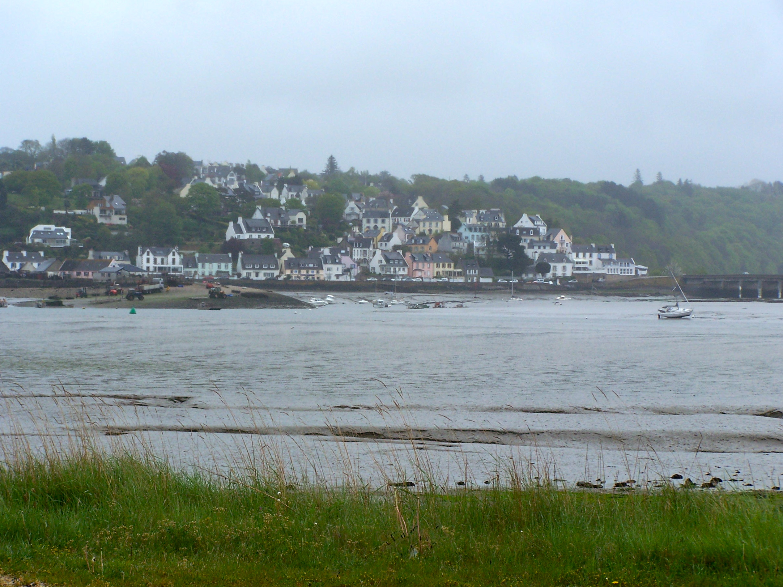 Le Dourduff-en-Mer au niveau de la confluence du Dourduff et de la rivière de Morlaix.